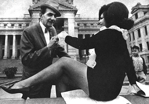 The popular Tres Patines visited Lima for a single time in the 70s. He did a photo shoot for a local magazine next to the poplar vedette Camucha Negrete. Here on the Paseo de los Héroes, opposite the Sheraton Hotel and the Palacio de Justicia.